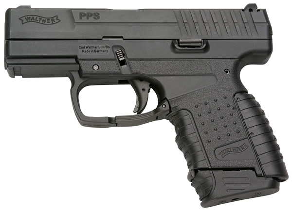 Walther PPS